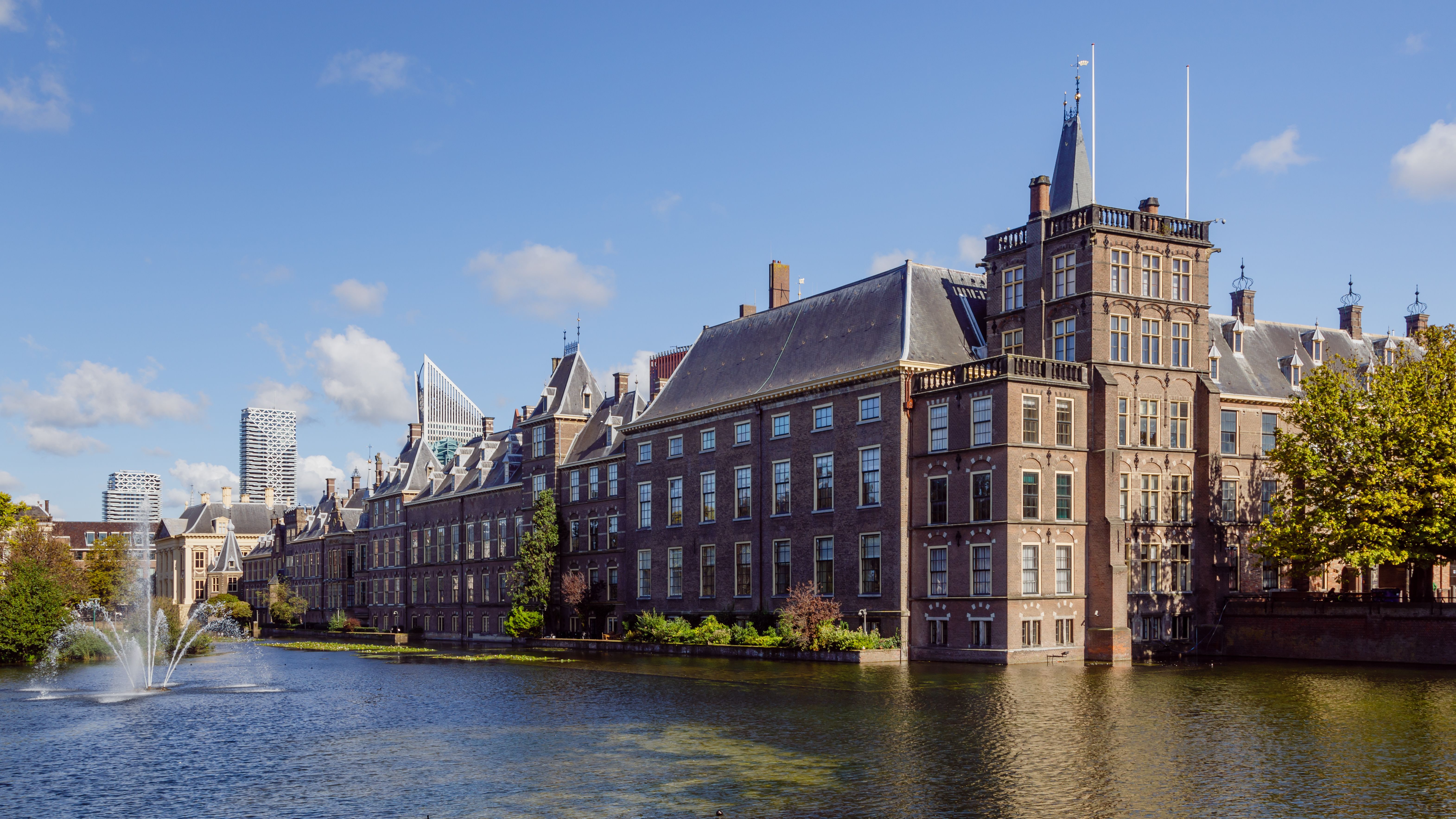 The Hague, The Netherlands: Binnenhof and Hofvijver